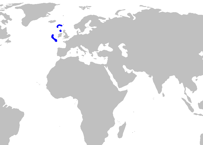 Distribution map for Apristurus aphyodes